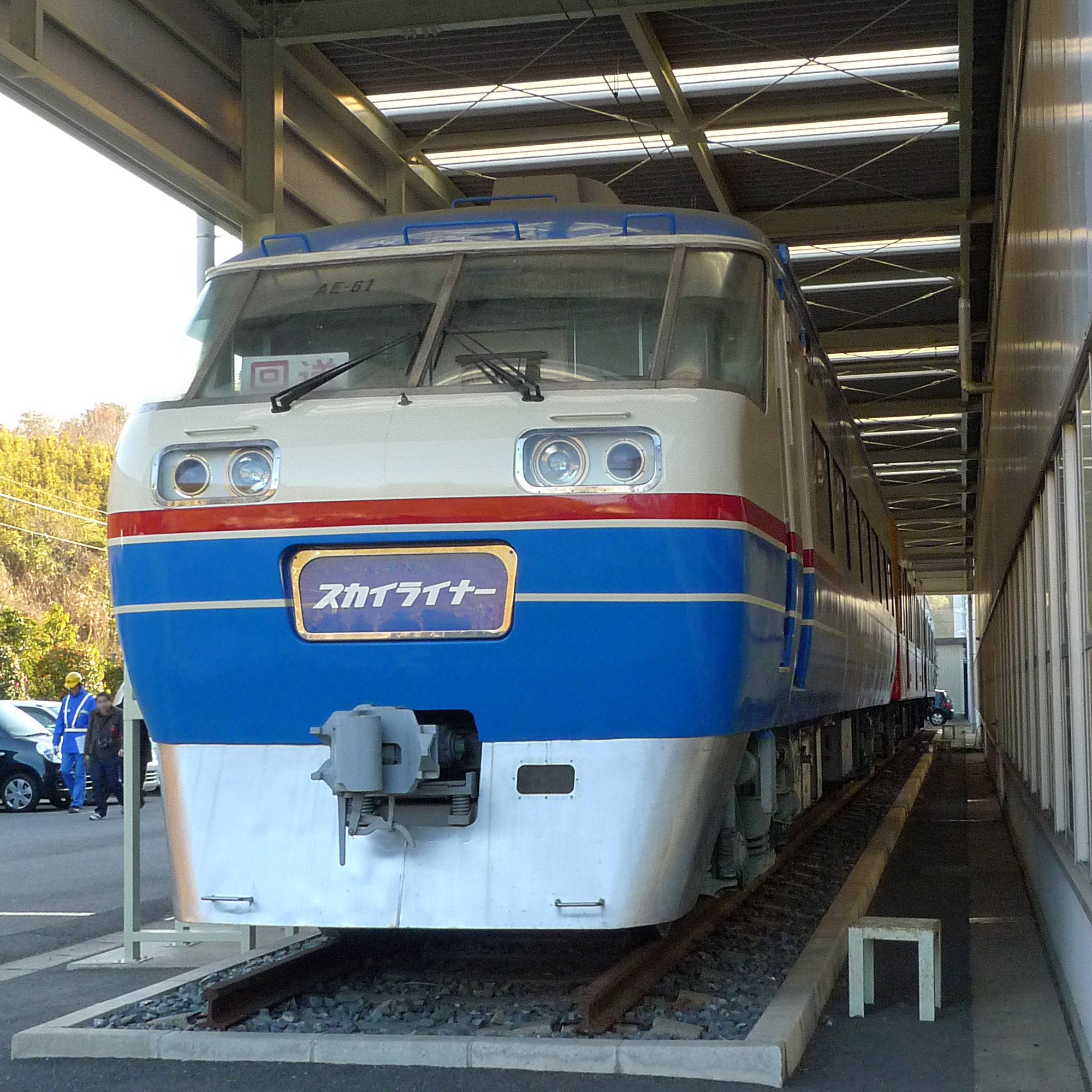 Preserved Keisei AE series EMU car number AE61 at Sogo Depot in Chiba Prefecture, Japan